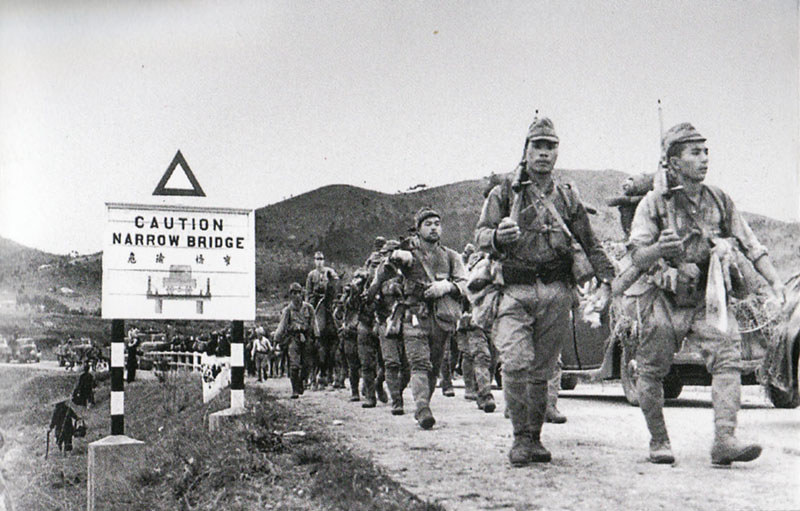 228th Infantry Regiments enters HK (1941)